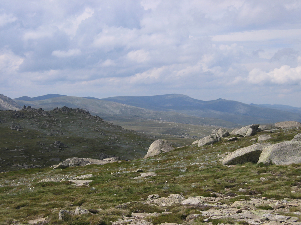 Looking from Kosciuszko Lookout along the top of the Snowy Mountains.